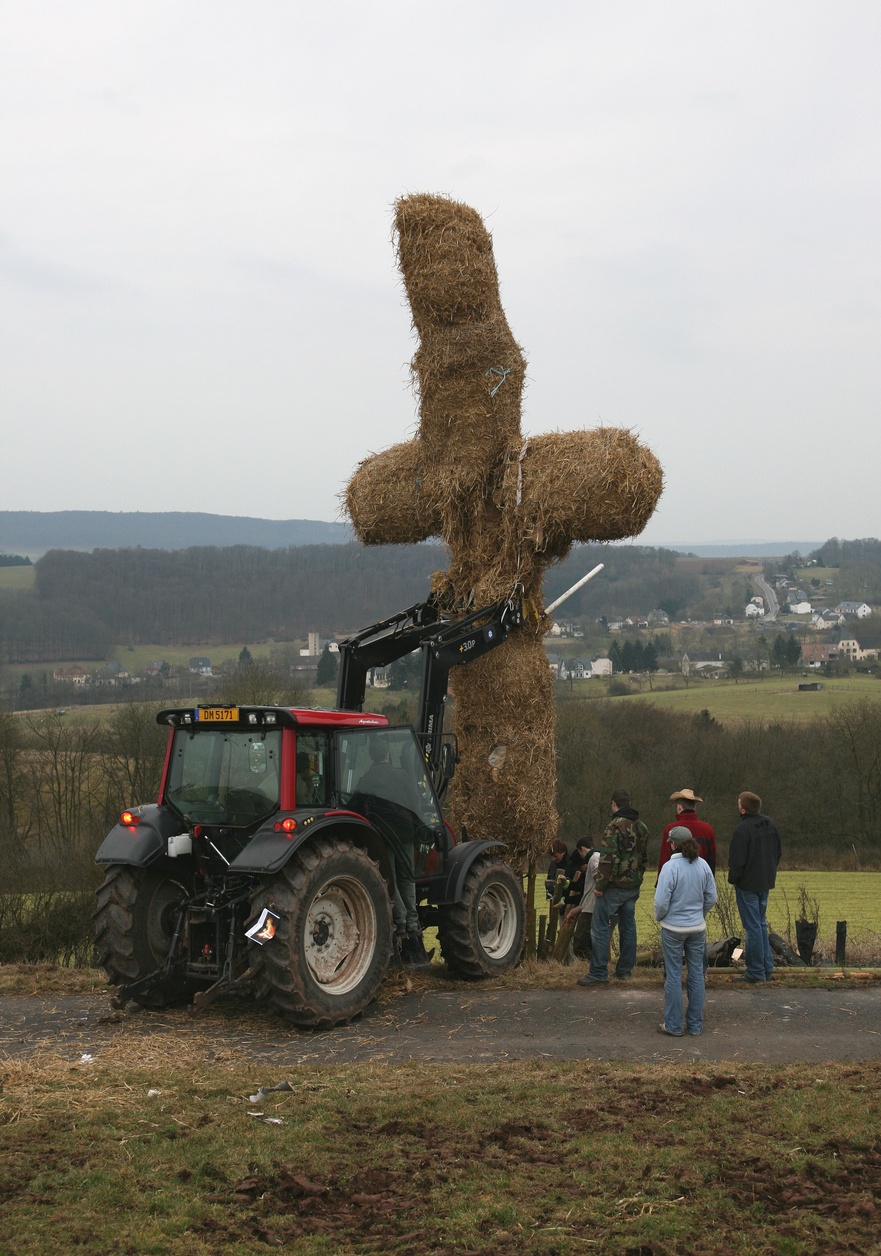 Preparation of traditional fire called "Buergbrennen" in Fouhren, Luxembourg.